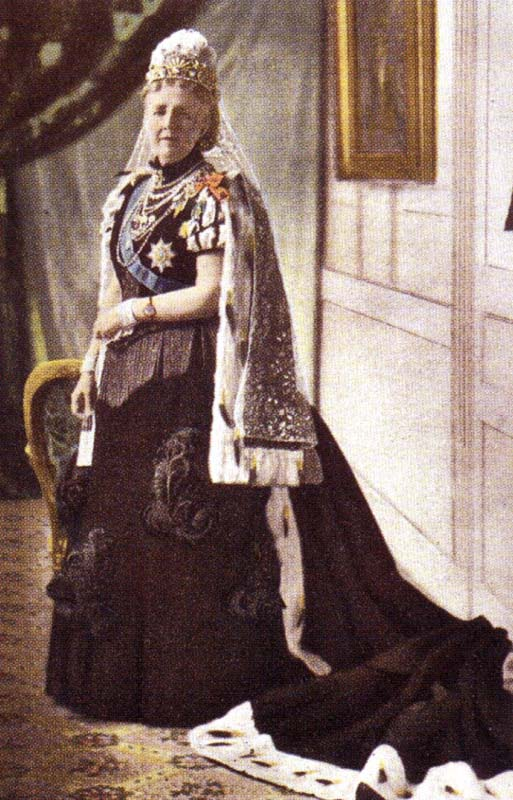 Queen Sofia of Sweden and Norway